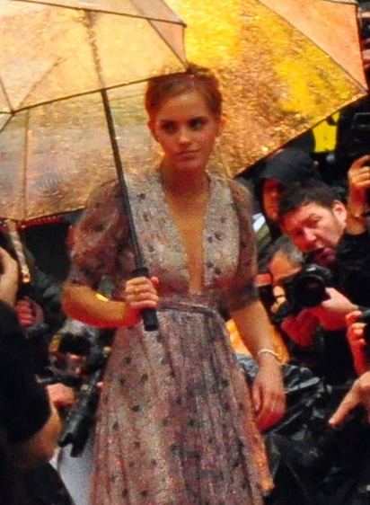 Emma Watson at Harry Potter and the Half-Blood Prince Premiere